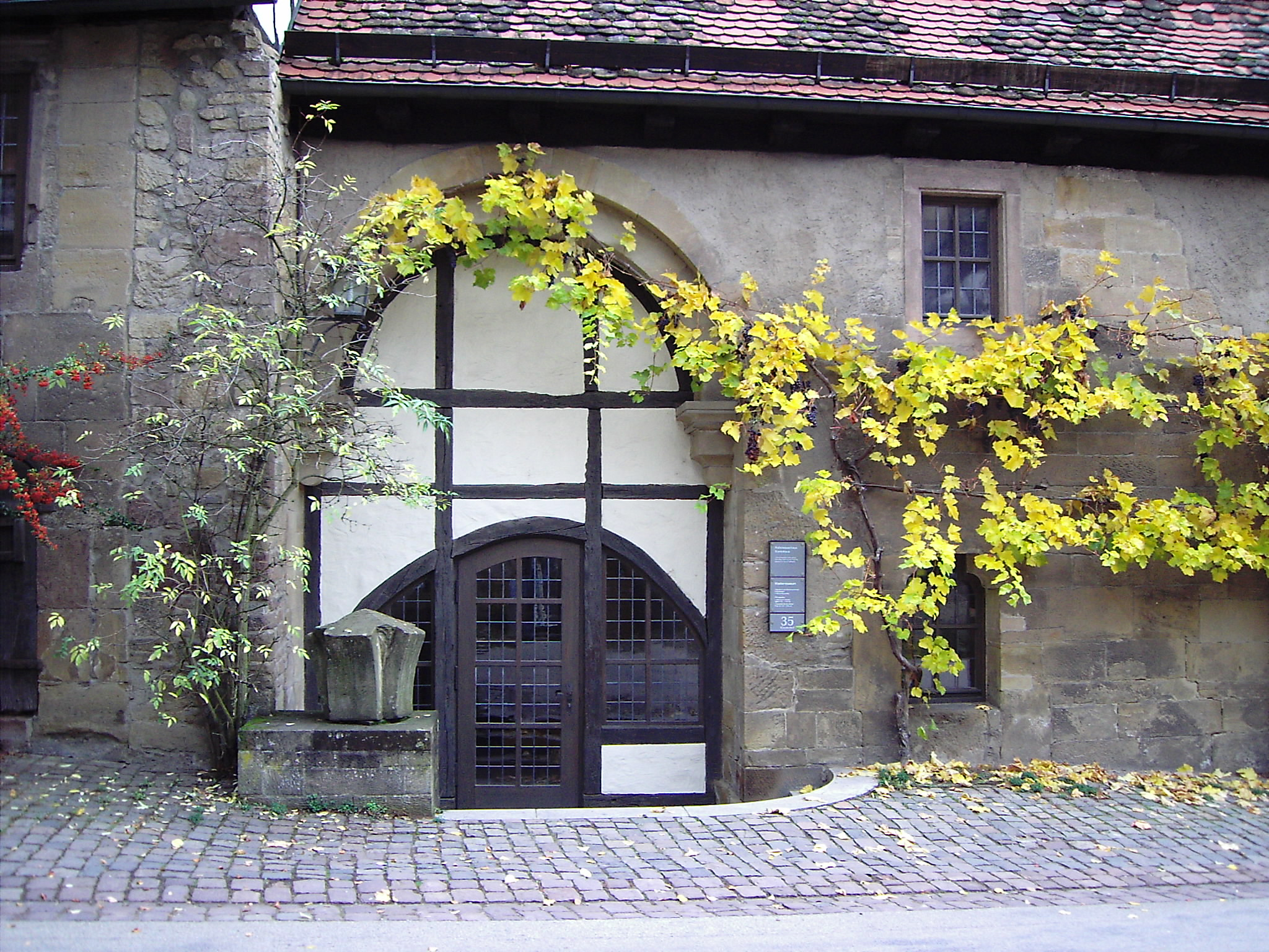 Maulbronn Monastery - Hostel (now pharmacy)